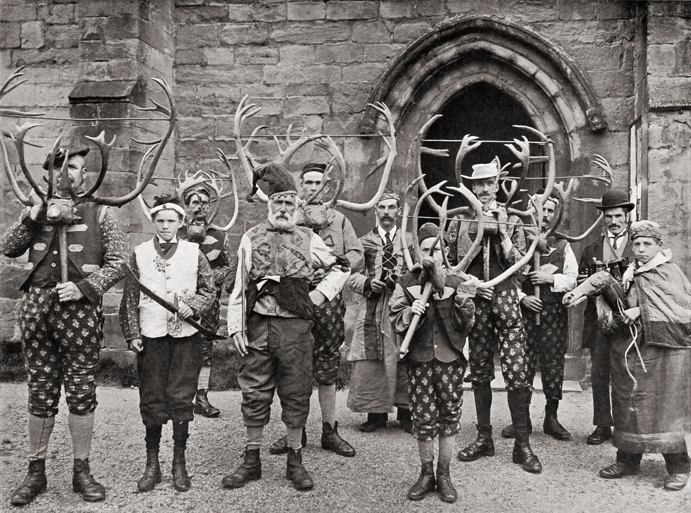 The players in the Abbots Bromley Horn Dance, circa 1900.